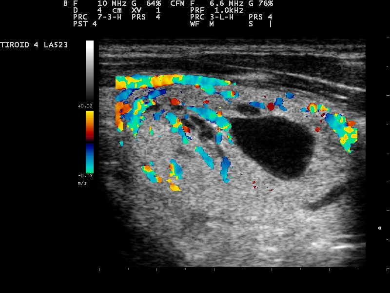 Ultrasound images of the thyroid gland